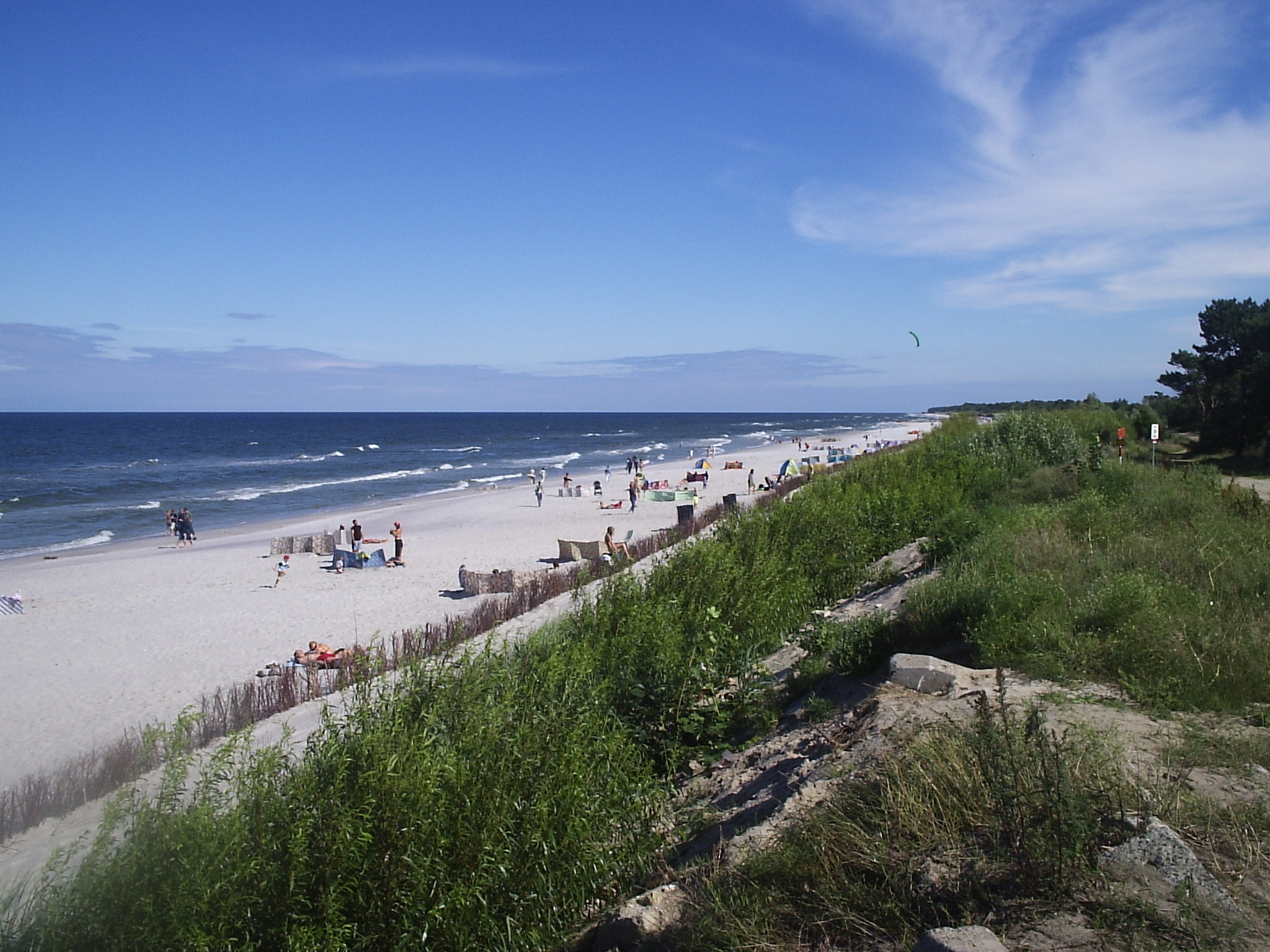 Beach in Kuźnica, Poland